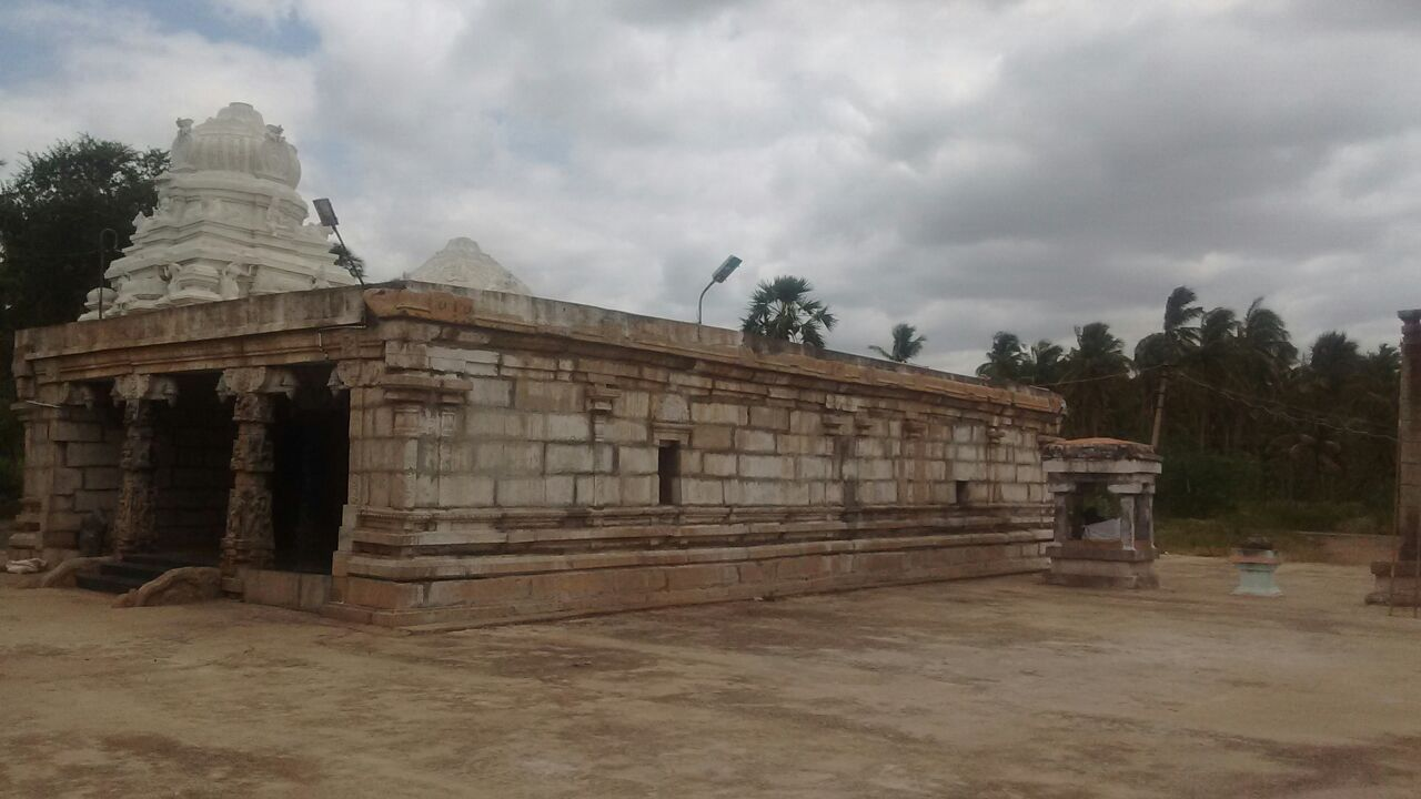 iradheeshwar sivan temple,palla soolagarai